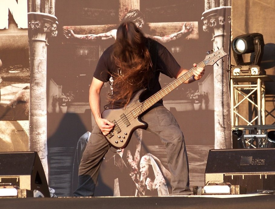 Legion of the Damned at Metal Camp, Slovenia 2009 (Harold Gielen)